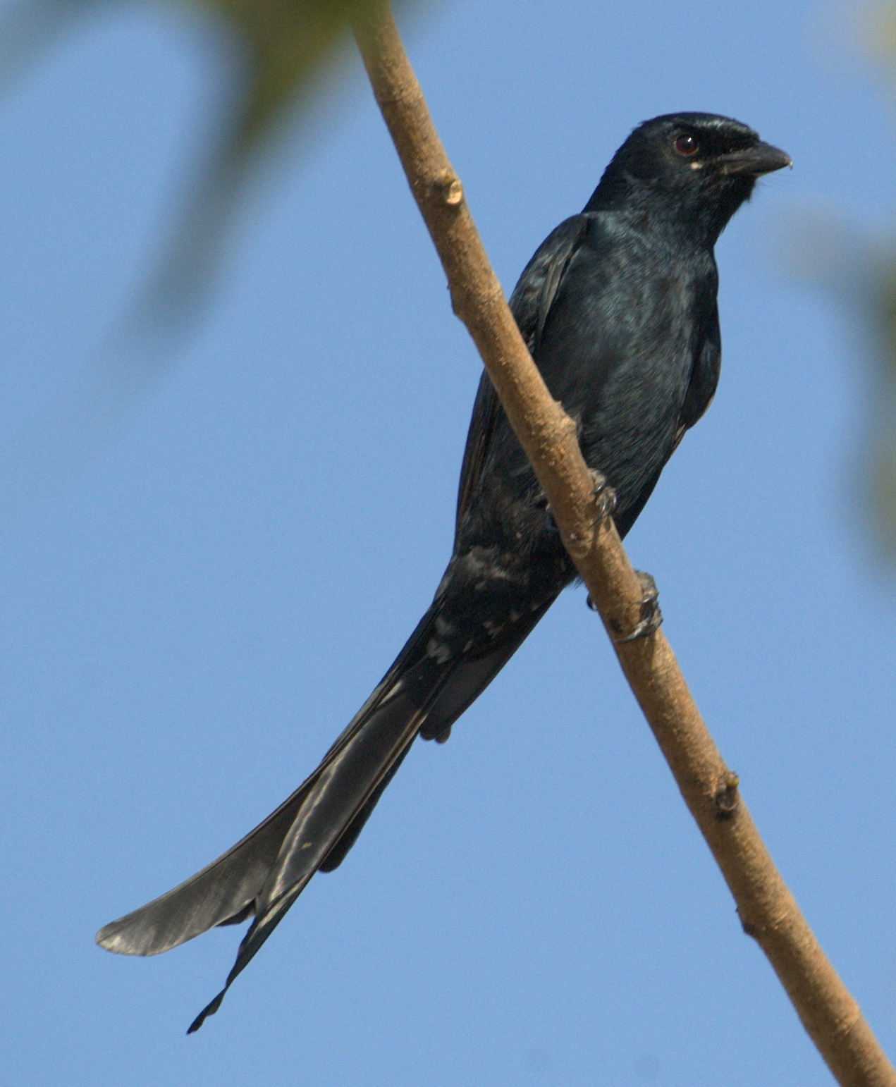 Black Drongo : Dicrurus macrocercus